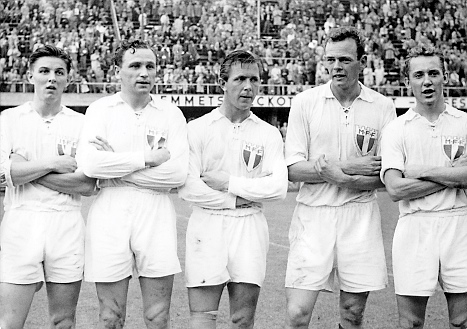 Charles Gustafsson, Henry Thillberg, Nils-Åke Sandell, Bengt Lindskog and Bertil Nilsson.